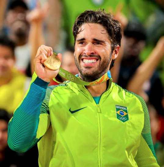 Bruno Oscar Schmidt at the 2016 Summer Olympics. He won the gold medal with Alison Cerutti.